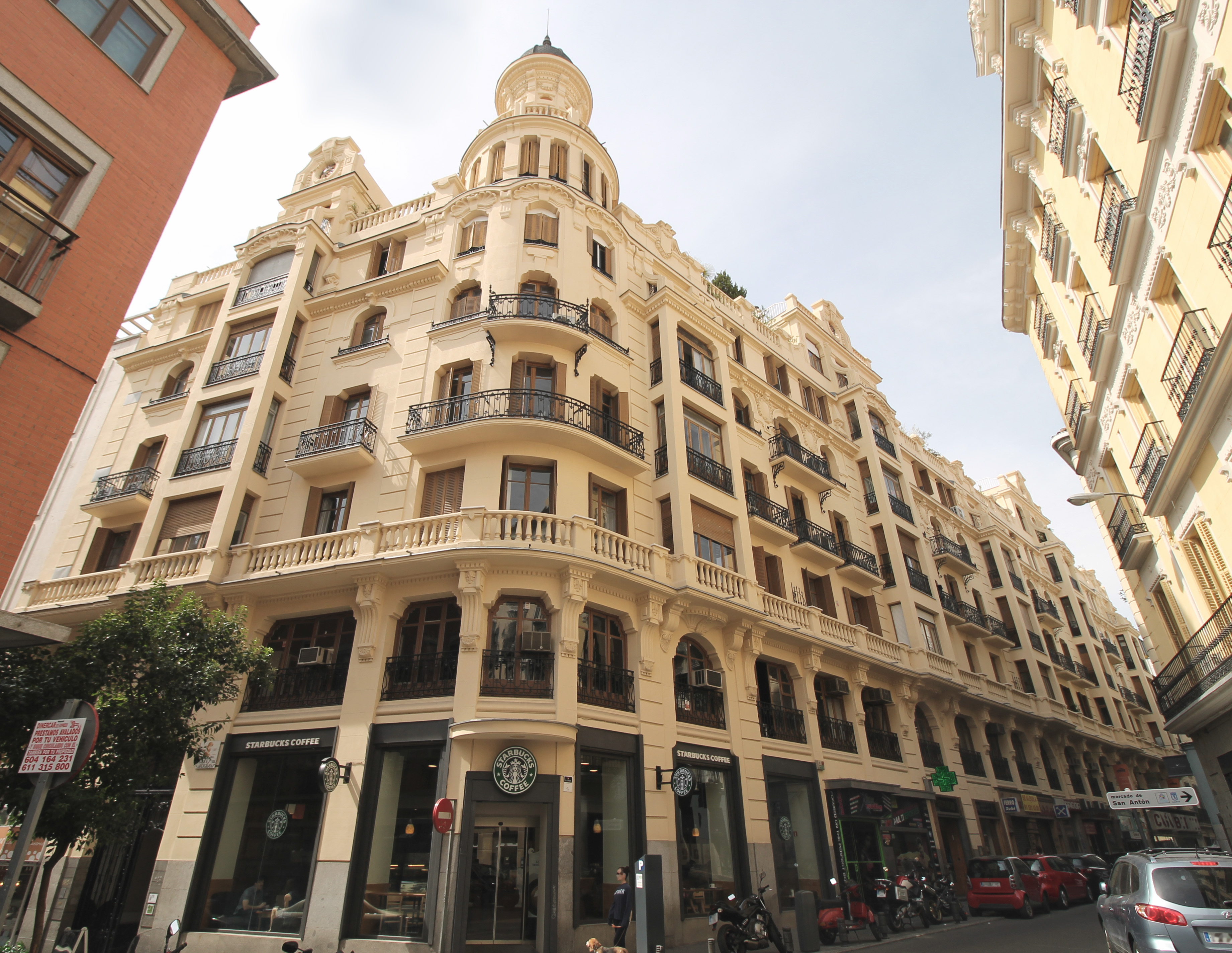 Housing designed in 1922 by architect Eduardo Sánchez Eznarriaga for Mr. Rafael Sánchez and built between 1922 and 1926. Writer Enrique Jardiel Poncela lived in it from 1939 until his death in 1952.